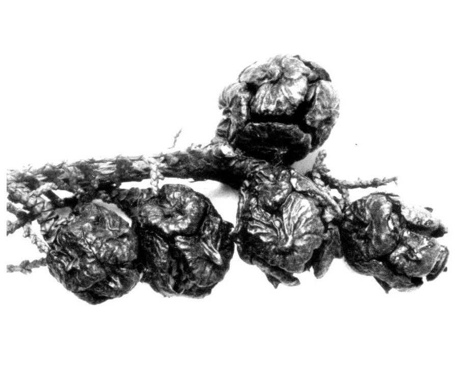 Cupressus goveniana from US Forest Service. No copyright.